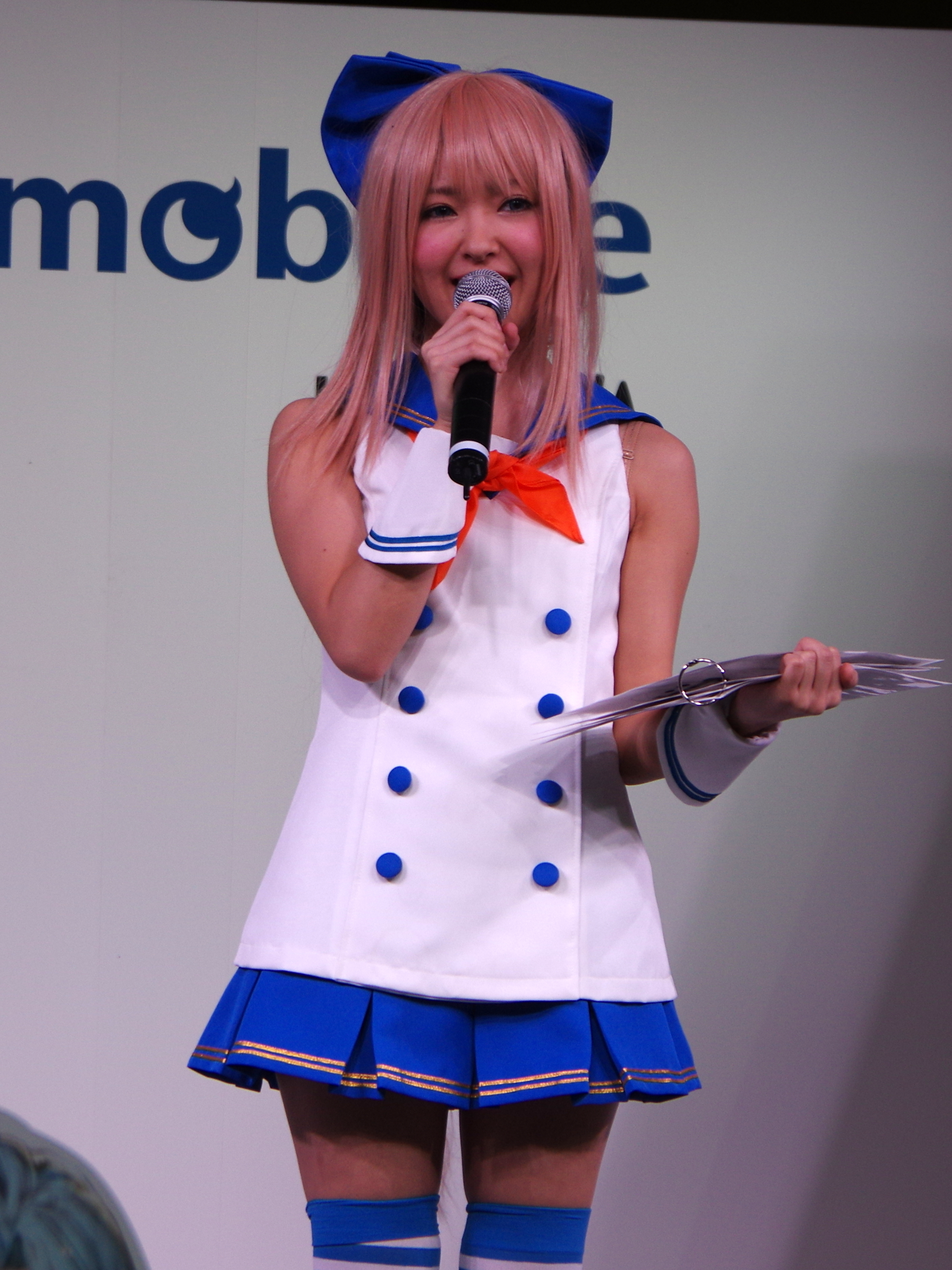 TOKYO GAME SHOW 2014_079